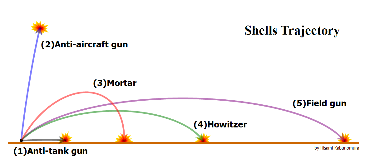 Shells trajectory